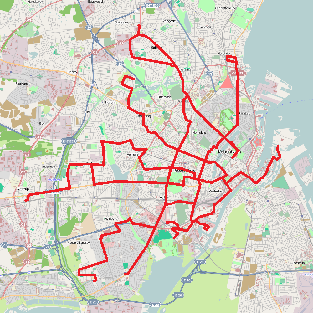 Map of the Copenhagen A-bus network as of 13 October 2019. This map may be incomplete, and may contain errors. Don't rely solely on it for navigation.